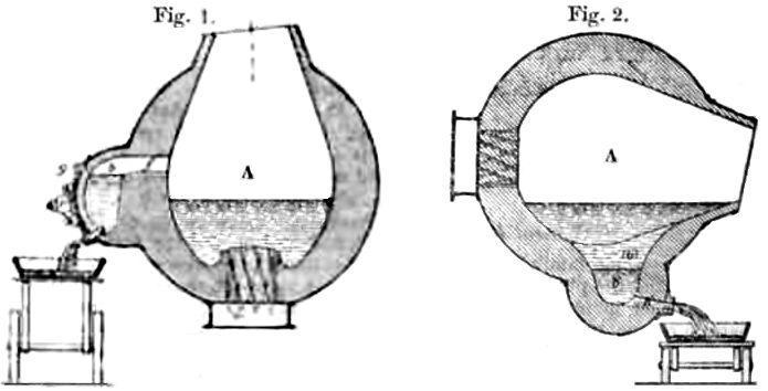 Sketch of the Selector, a spherical Manhès-David converter fitted with a small tank (or pocket) installed in the wall. Fig 1 : design where the pocket is poured while the matte is still being blown ; Fig 2 : design where the blowing is stopped regularly to tap the metal lying in the bottom. This patent of Paul David, which was supposed to improve the Manhès-David process, didn't meet any success.